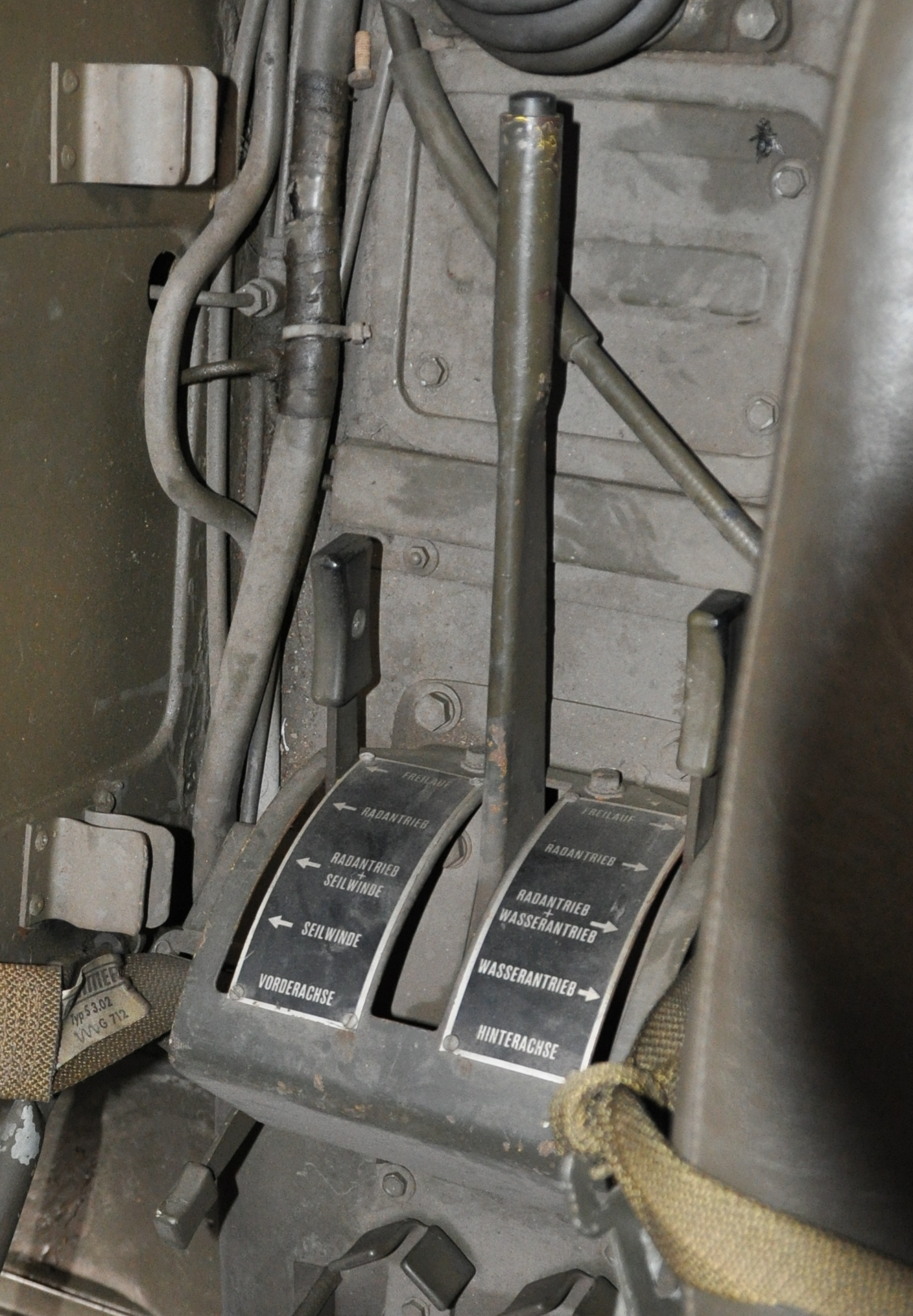 control lever Europa-Jeep (Type Fiat-MAN-Hotchkiss)